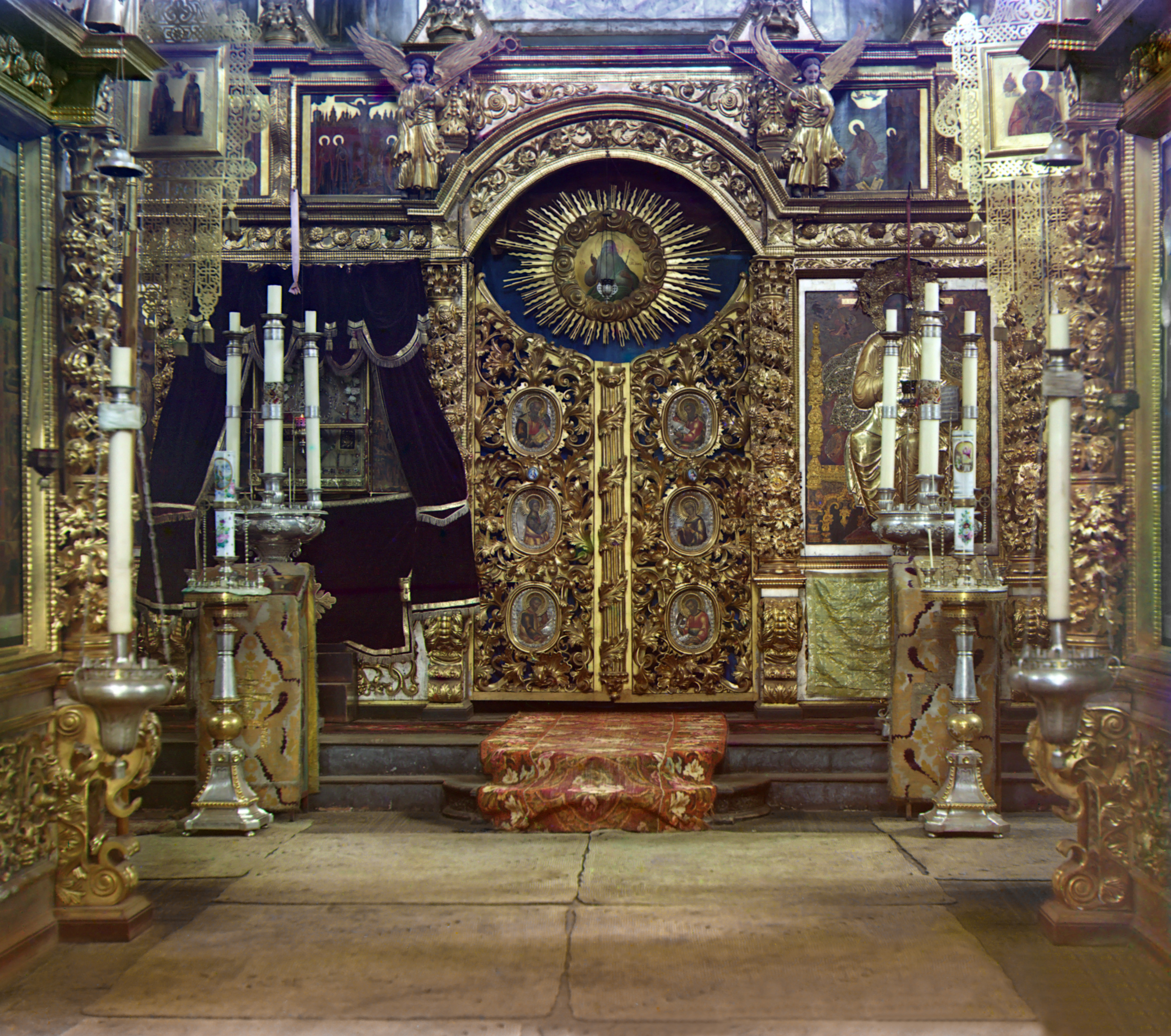 Holly Doors of the summer Church of the Fyodorovskaya Mother of God. Yaroslavl, 1911